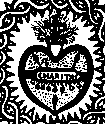 Picture of Jesus' Sacred Heart from Saint Marguerite Marie Alacoque